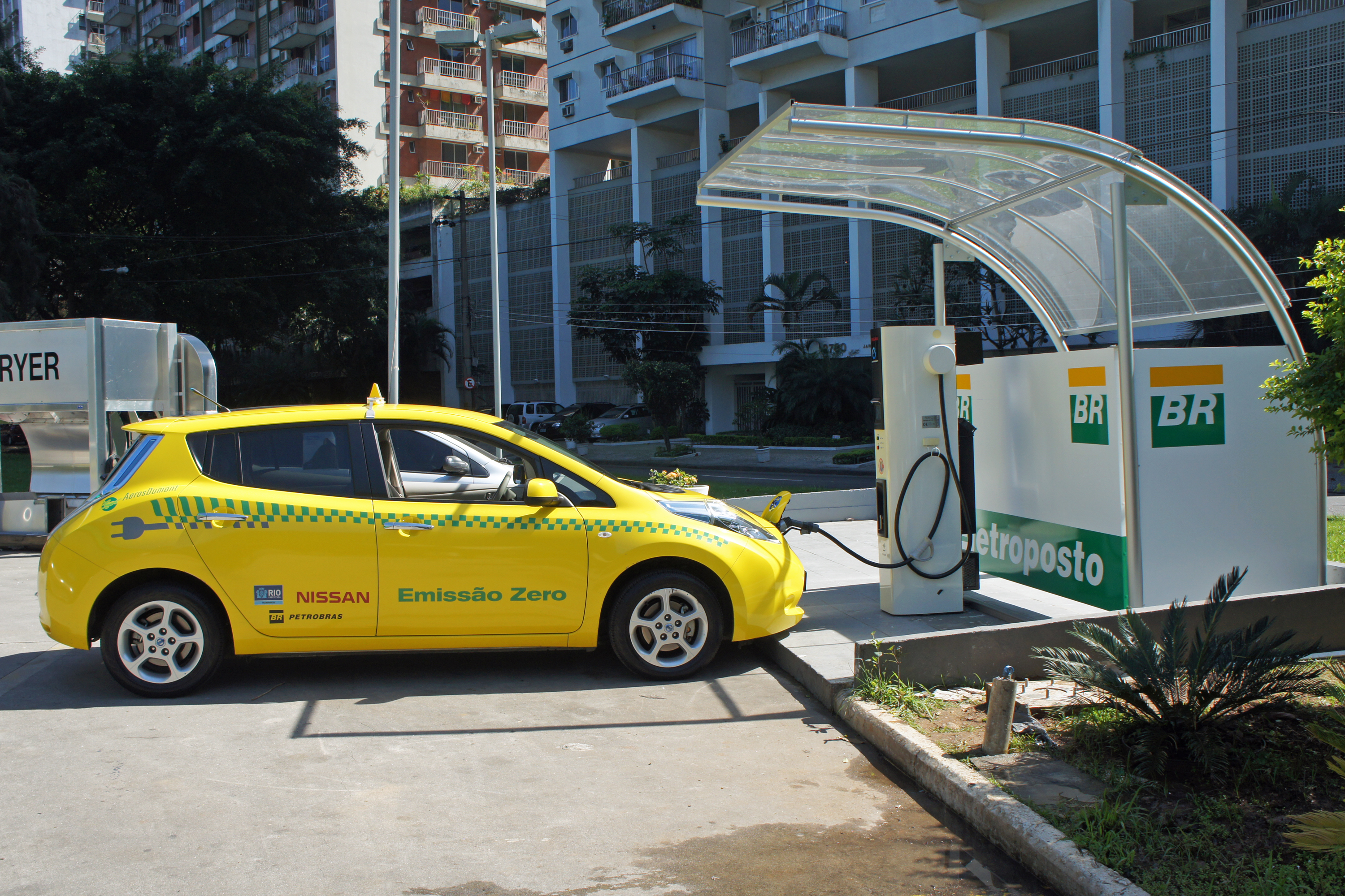 Nissan Leaf electric car operating as taxi at a Petrobras charging station in Rio de Janeiro, Brazil